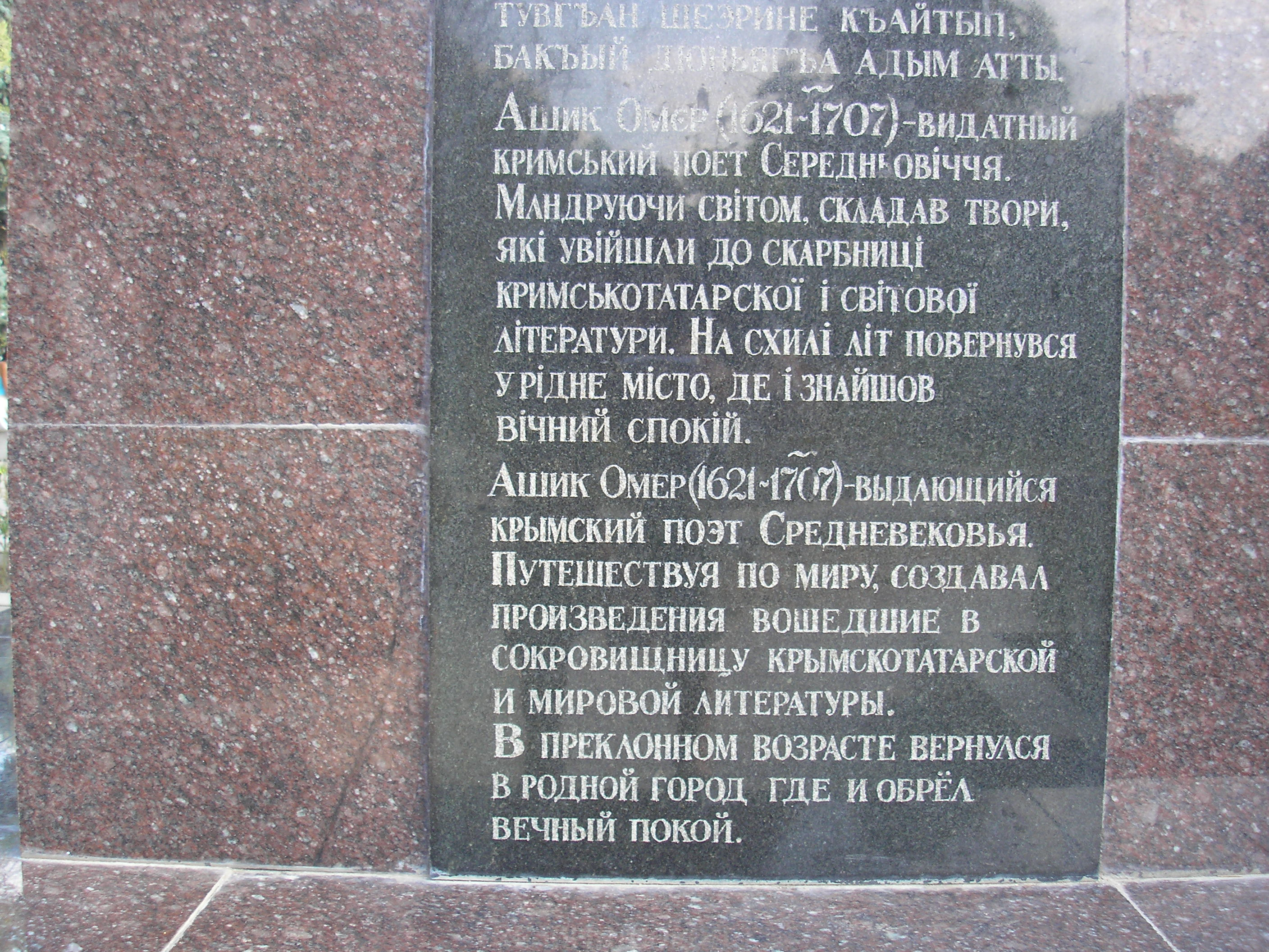 Evpatoria, Crimea, Ashik Omer